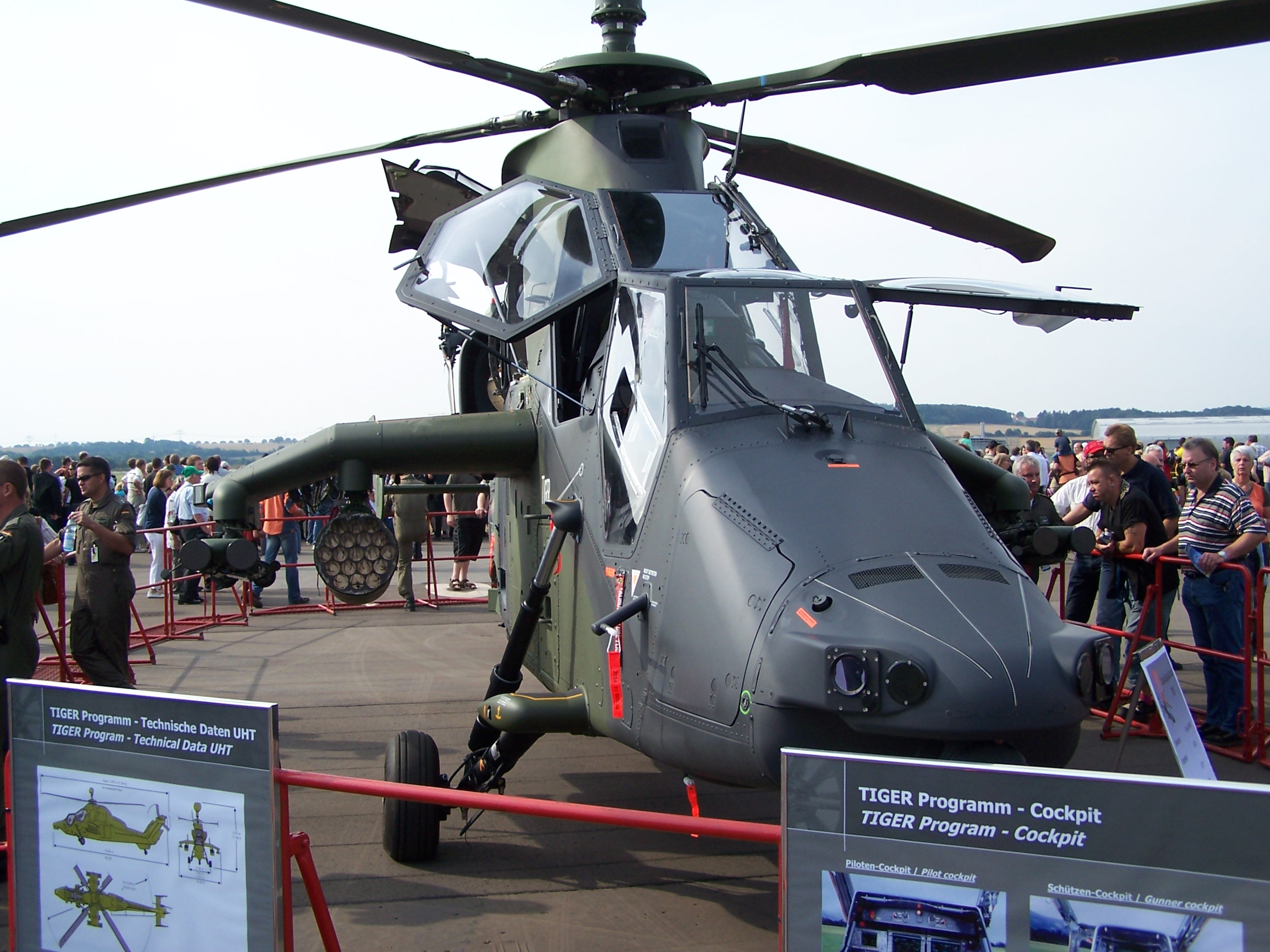 A UHT Tiger of the German Army on static display in Fritzlar.